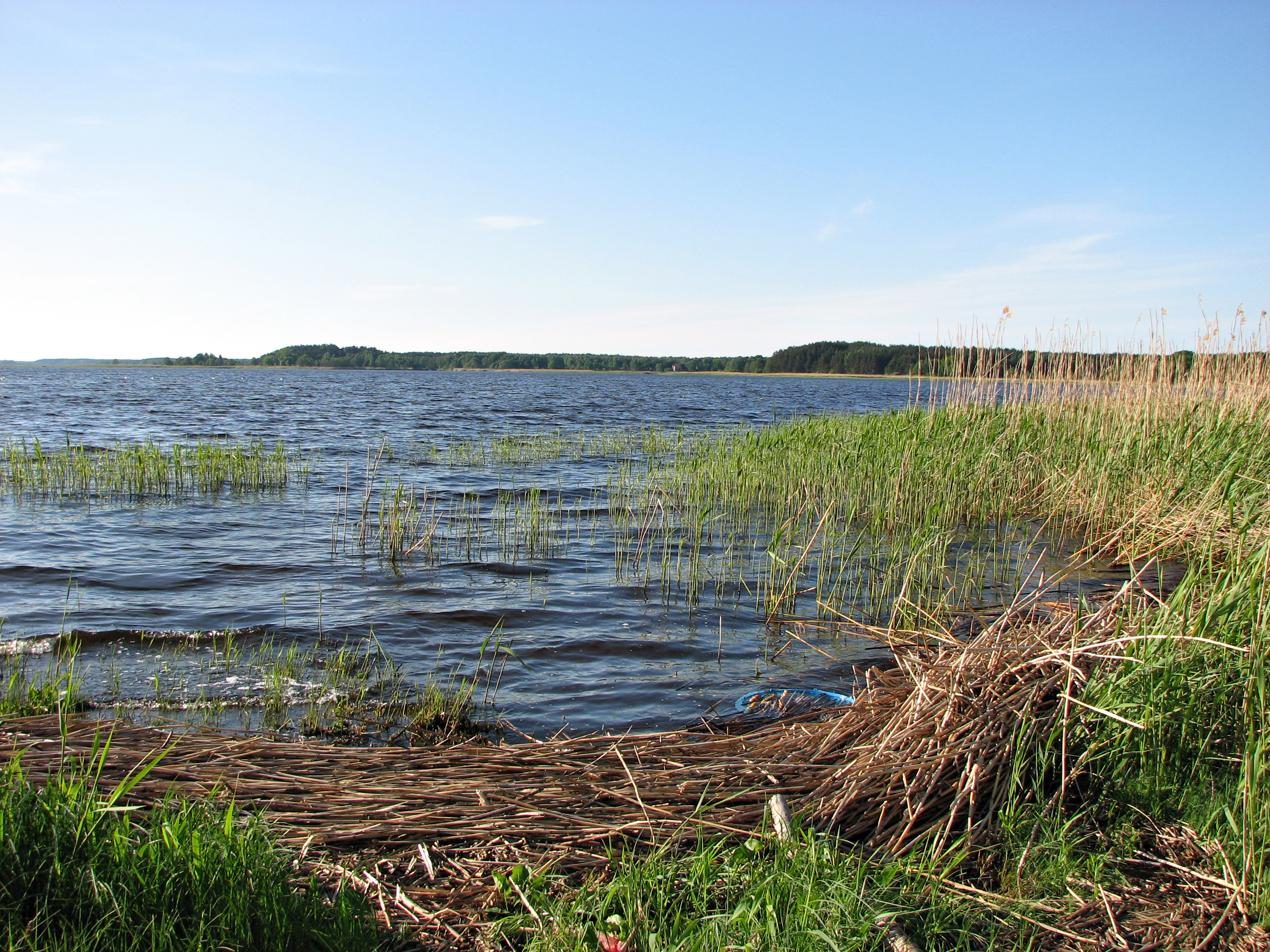 Kishezers in Jugla area